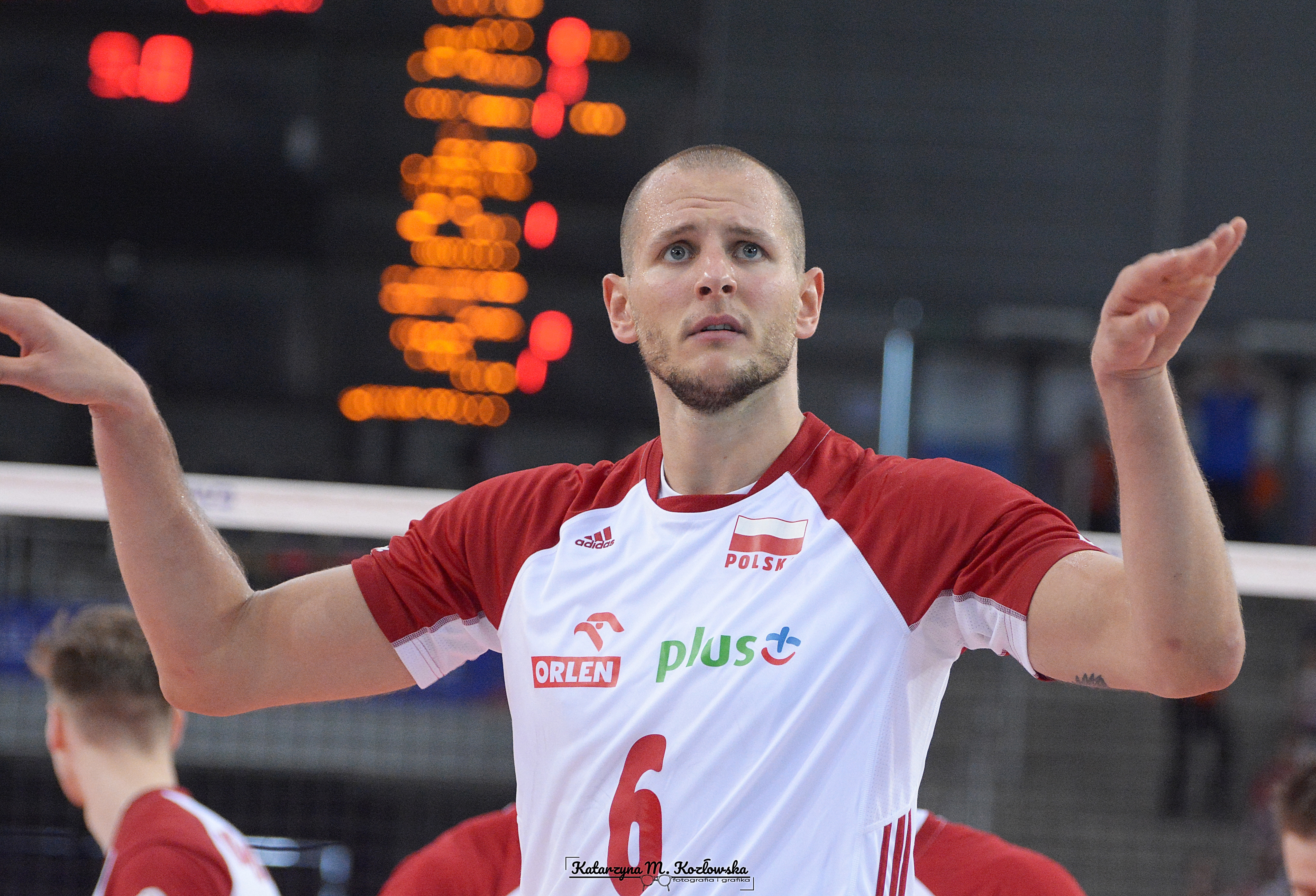 Bartosz Kurek, a volleyball player from Poland. Volleyball Nations League: Poland - France.